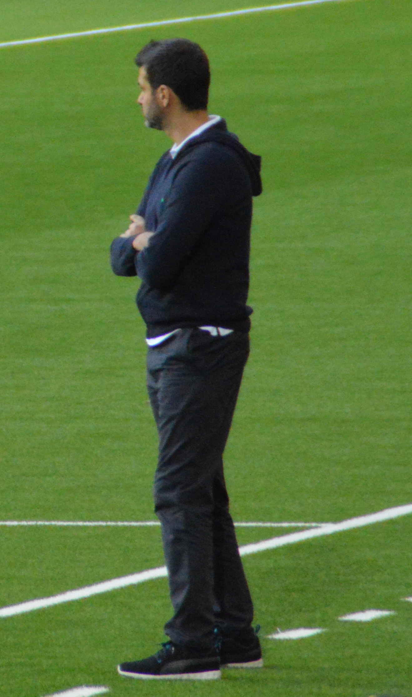 Panathinaikos manager Andrea Stramacioni during a UEFA Europa League Qualifier against AIK at Tele2 Arena, Stockholm, Sweden